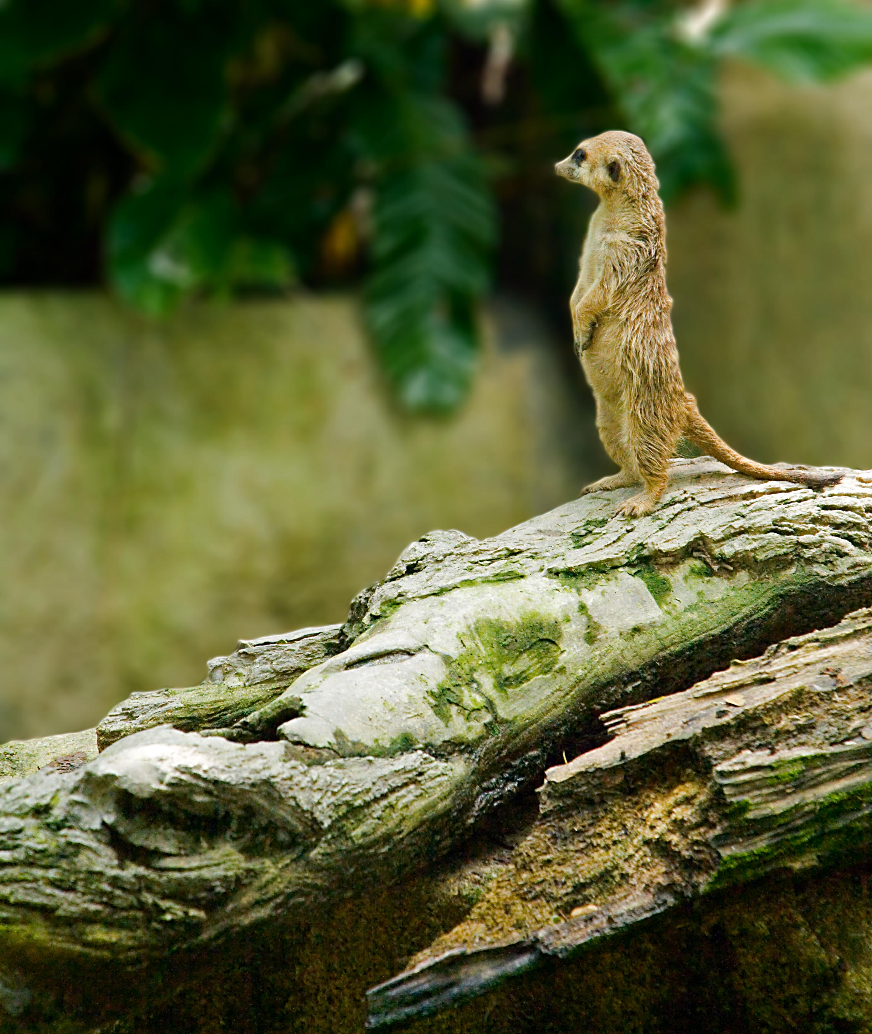 A meerkat (Suricata suricatta) in the Singapore Zoo.